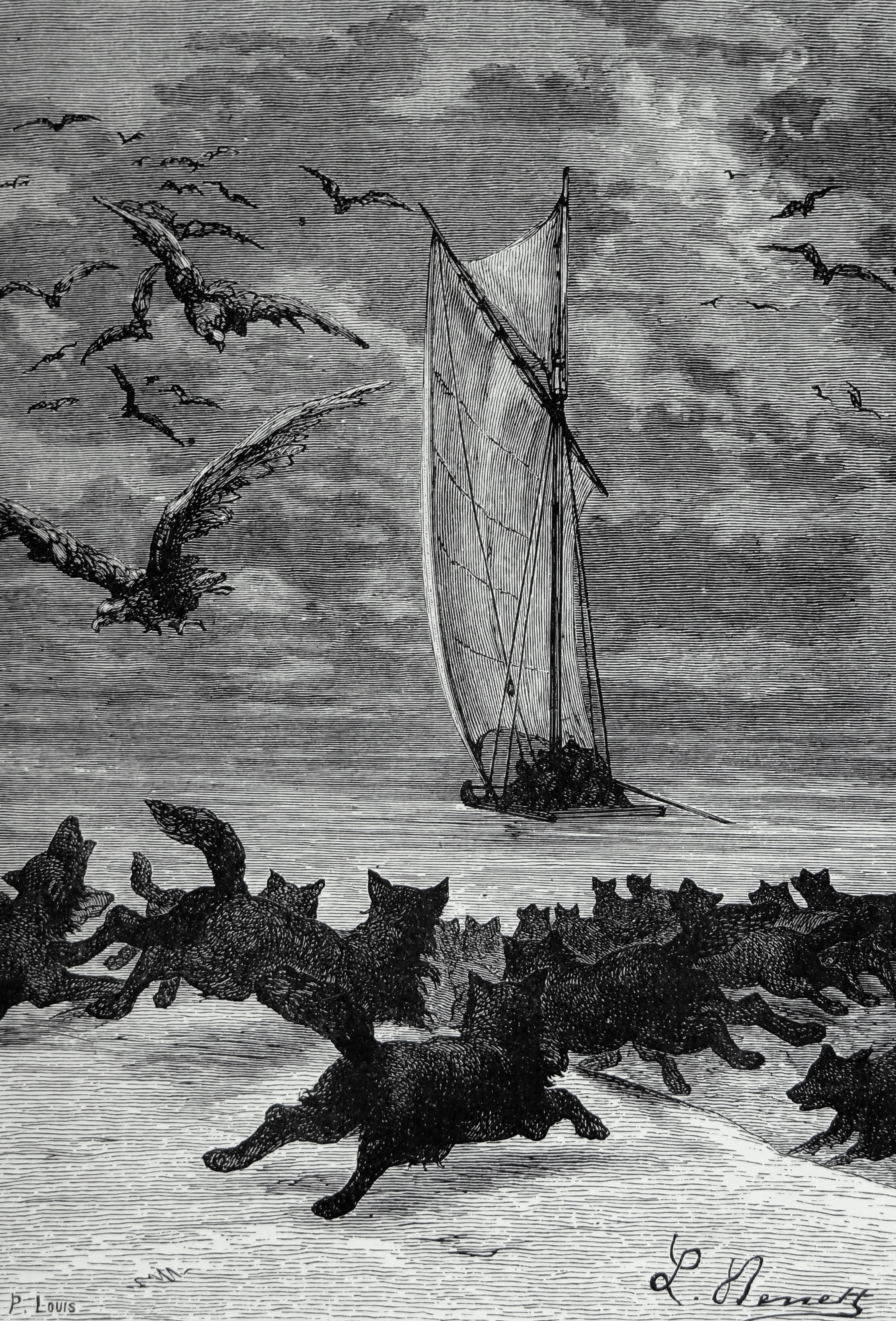 And Sometimes a Pack of Prairie Wolves. An illustration from the novel "Around the World in Eighty Days" by Jules Verne painted by Alphonse de Neuville and/or Léon Benett.